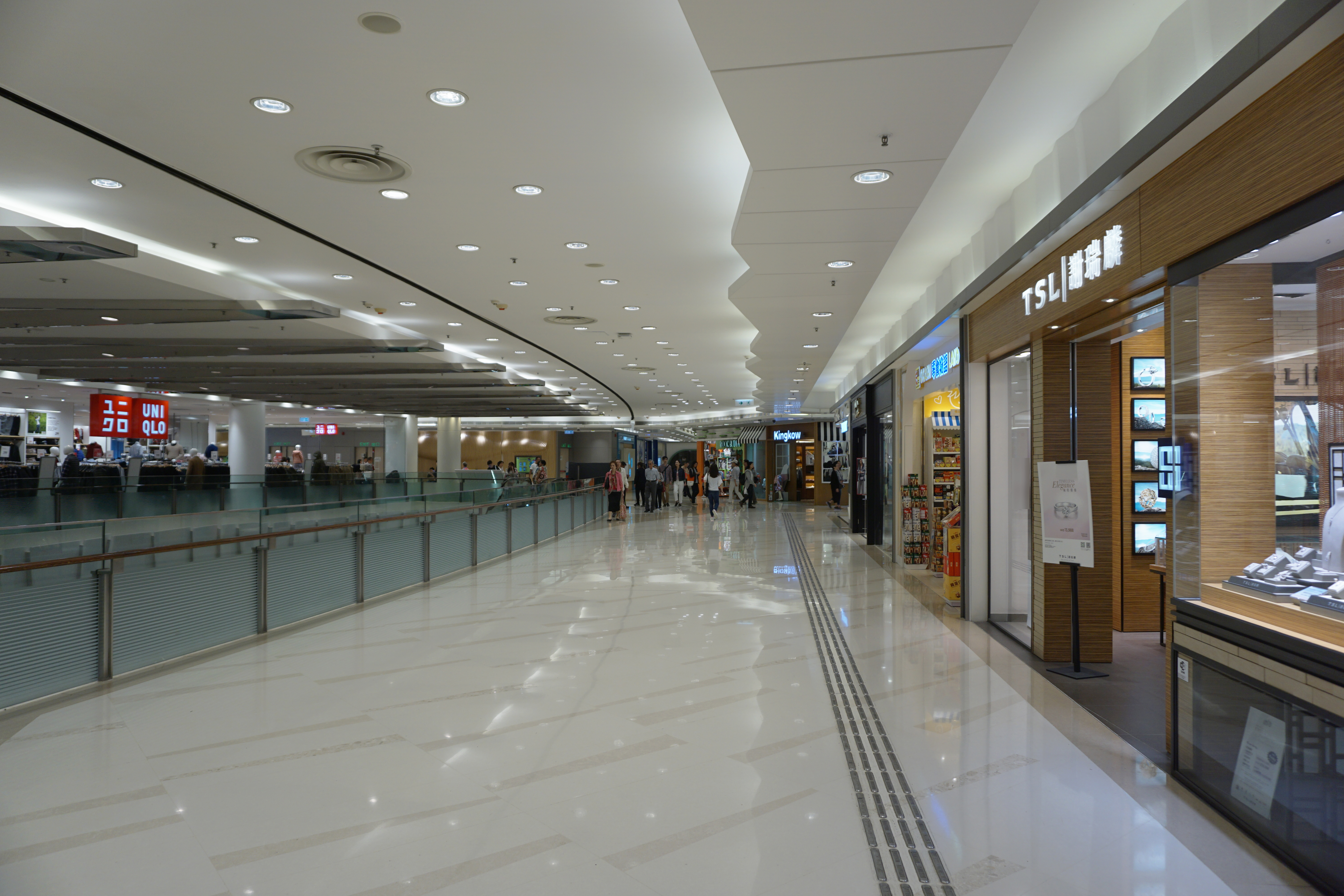 PopCorn 2 in Tseung Kwan O, Hong Kong.